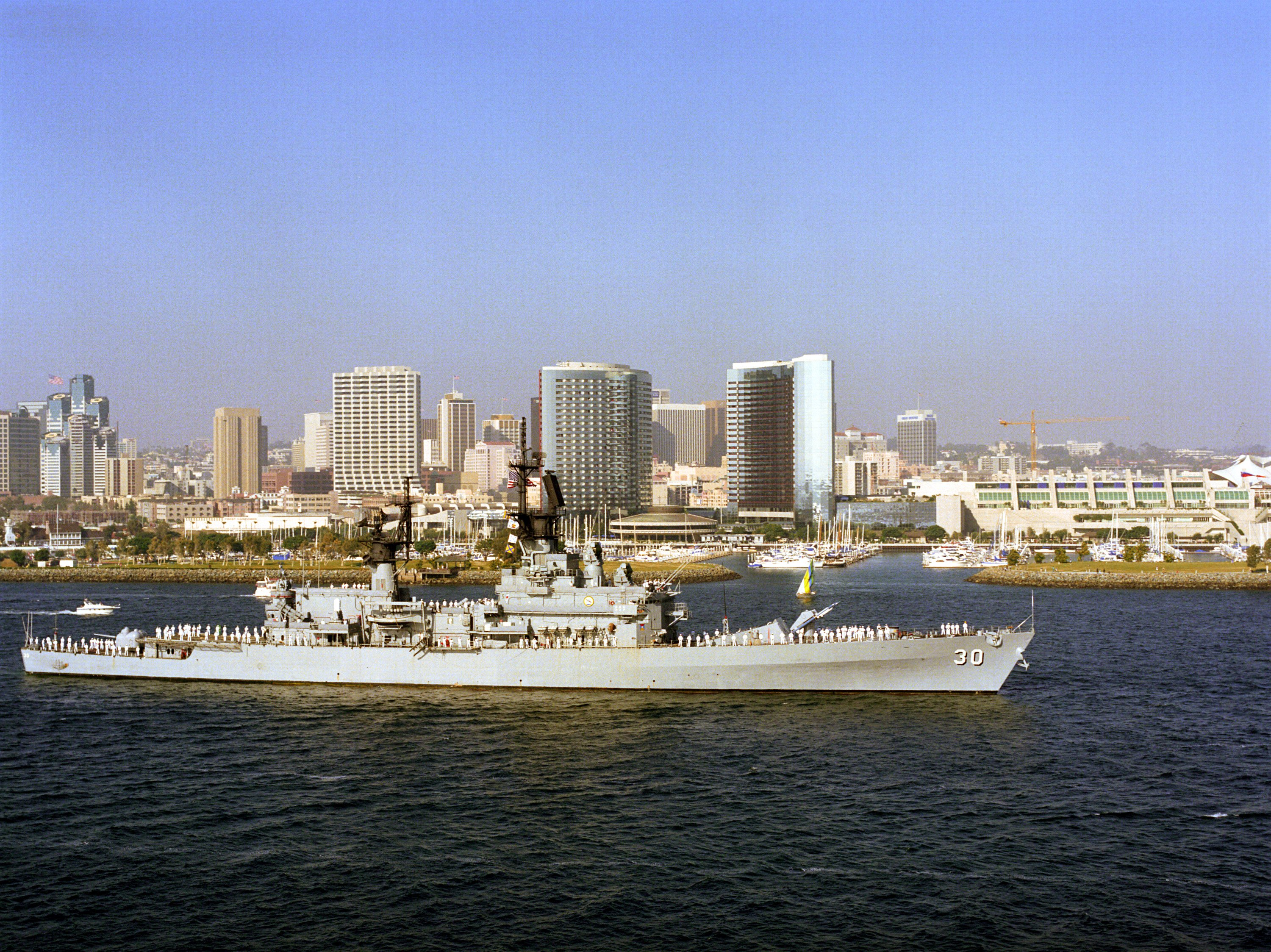 The U.S. Navy guided missile cruiser USS Horne (CG-30) underway as it passes along the city shoreline of San Diego, Califronia (USA), on 5 October 1990. The crew manned the rails as Horne participated in a ship parade.